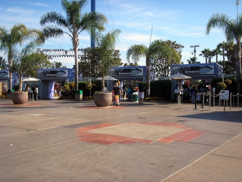 Entrance of the San Diego Sea World.